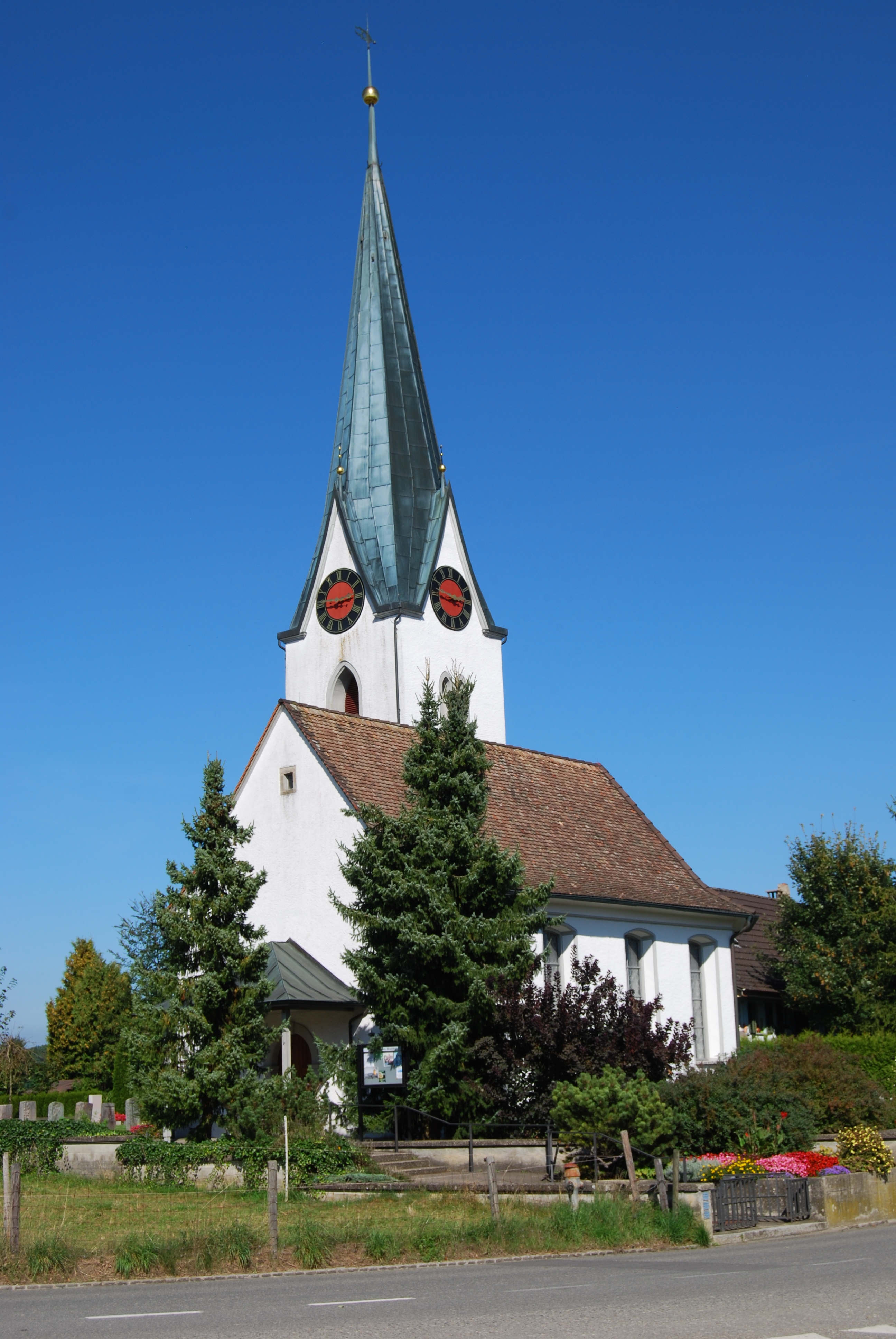 Protestant church at Birwinken (KGS n. 13633), canton of Thurgovia, Switzerland